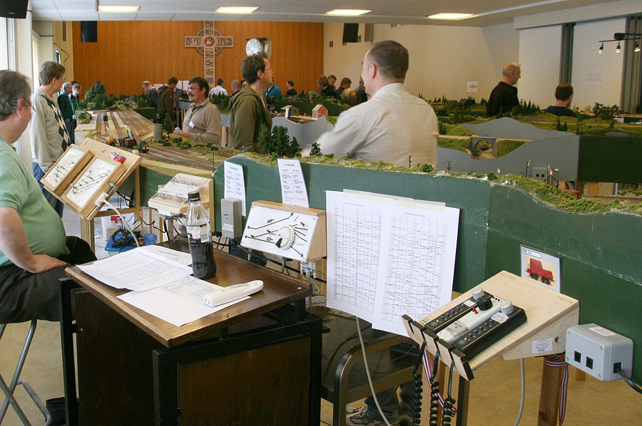 Fremo gathering in Arendal, Norway, 2010Norsk bokmål: Fremo-samling i Arendal 2010. Stasjonsmesterens "kontor" på Nelaug stasjon